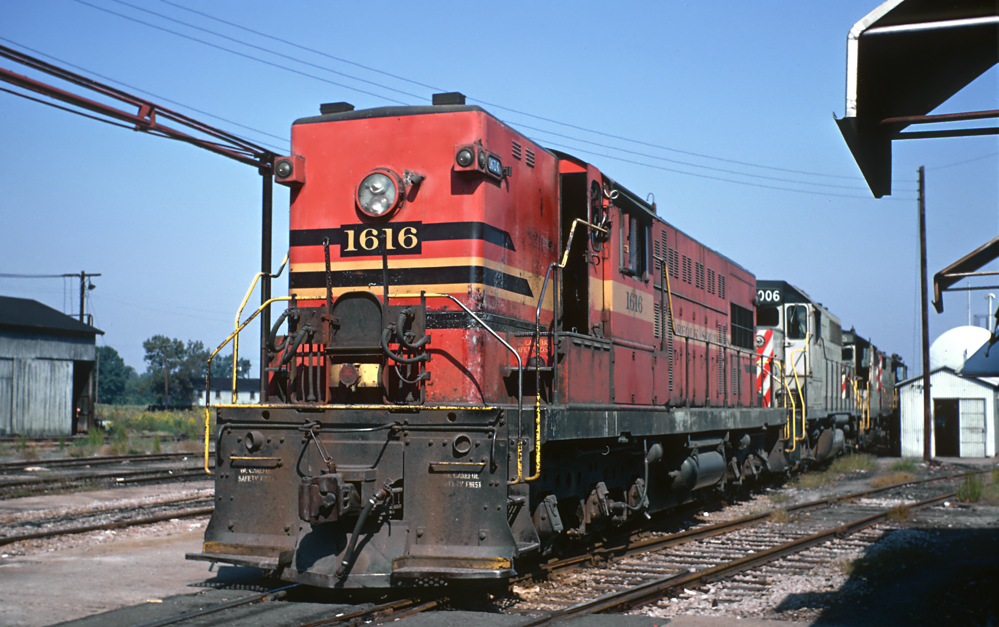 Note 6-wheel trucks, only 21 built in the U.S. A Roger Puta Photograph